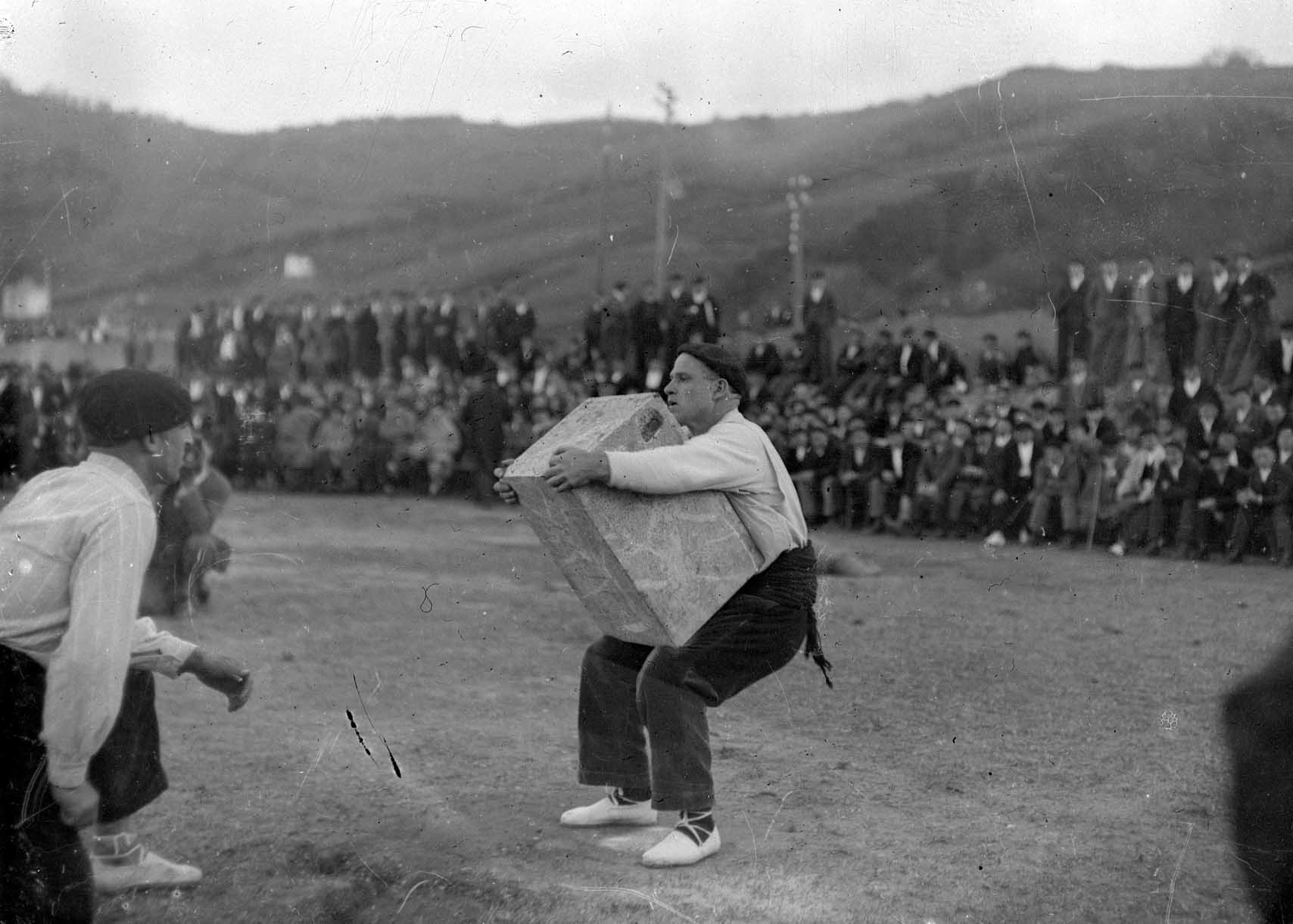 The harrijasotzaile Arteondo lifting a 15 arro stone